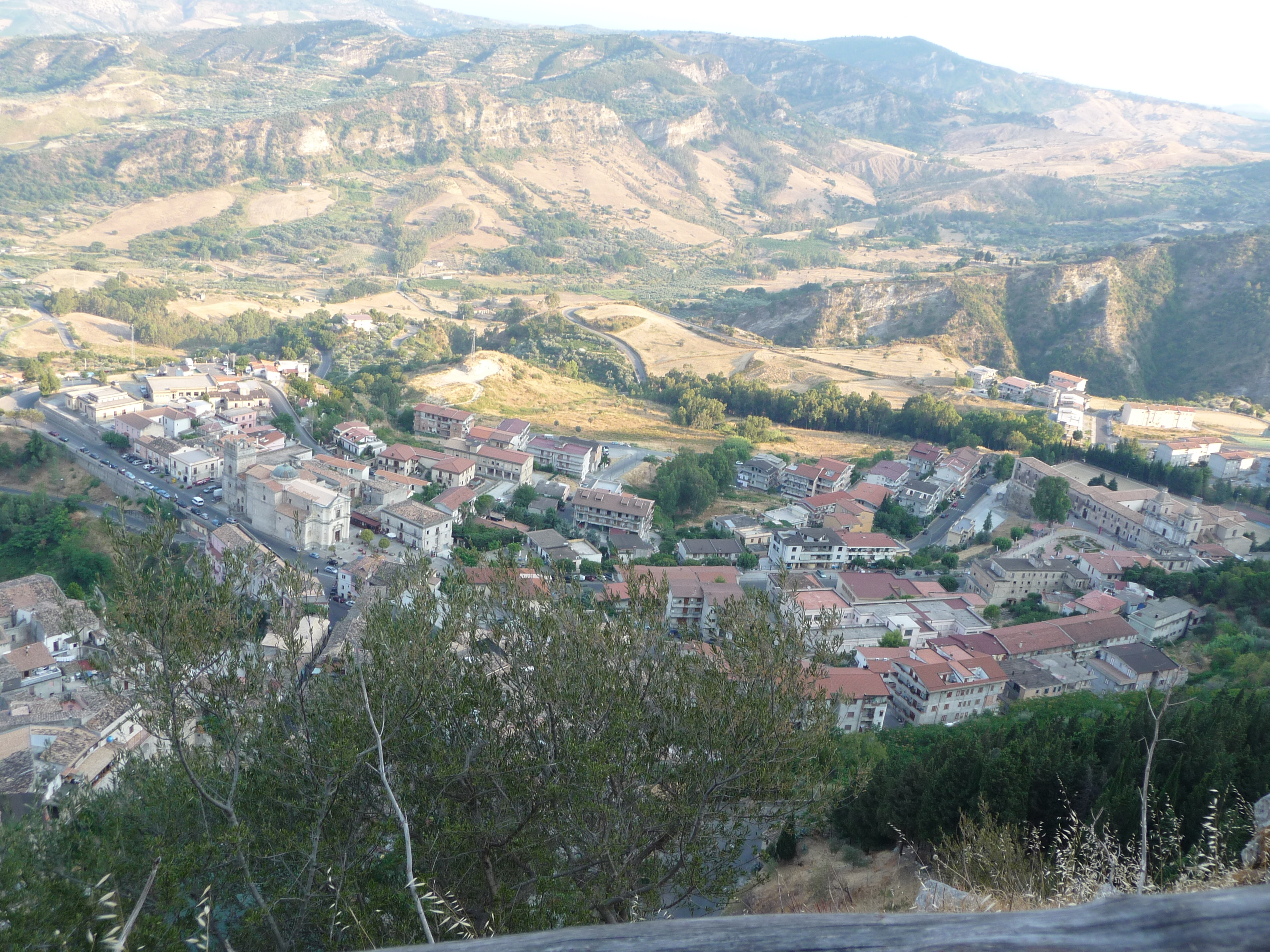 Stilo from Mount Consolino